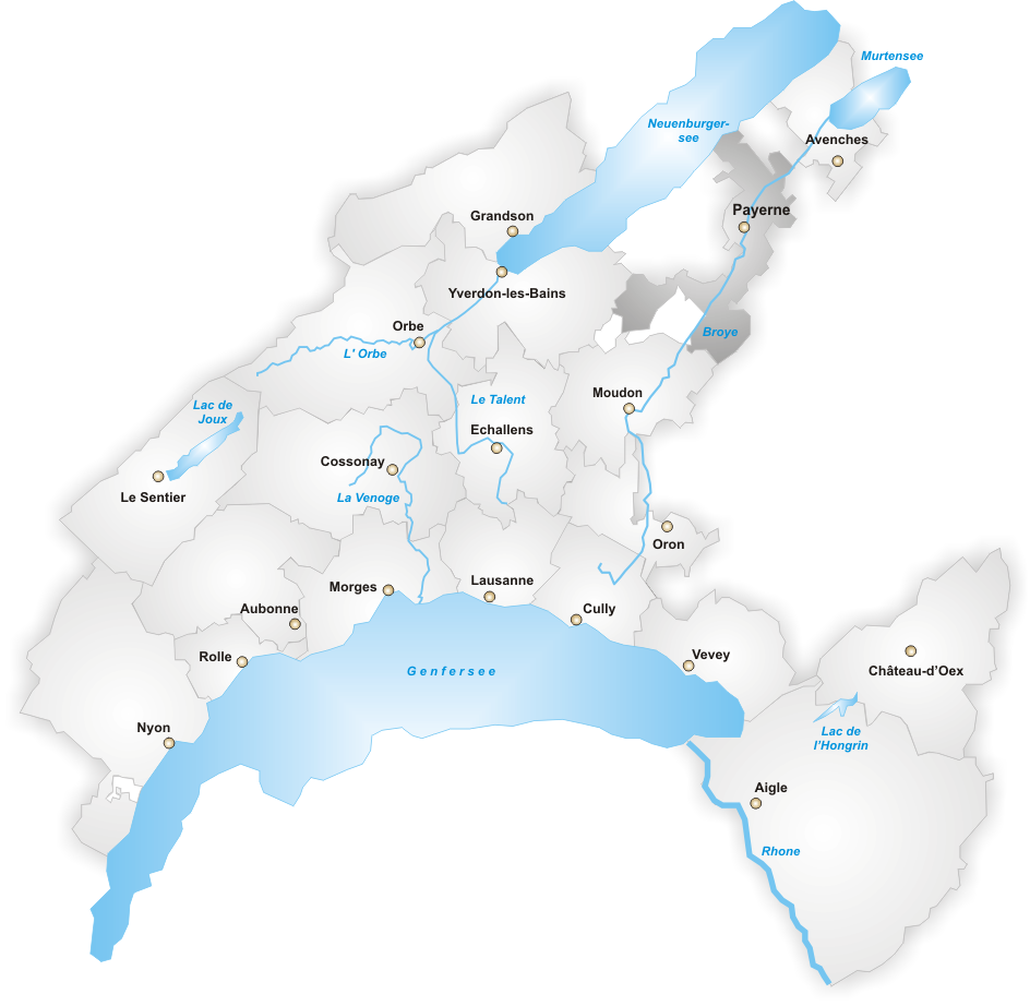 District Payerne until 2007